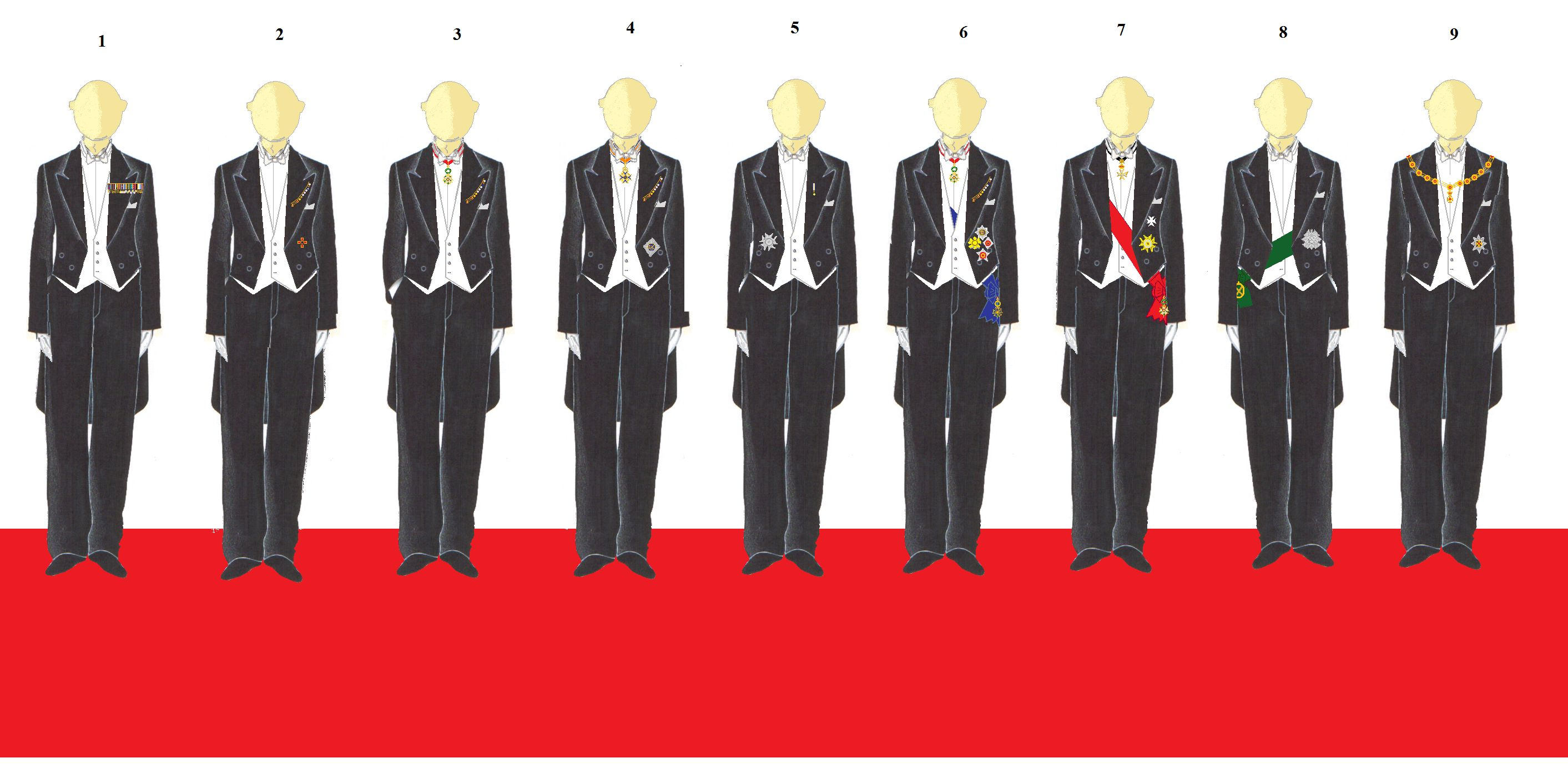 The customary way to wear decorations with White tie 1 Miniature worn on a brooch on the lapel of the left chest. 2 Miniatures are sometimes worn on a chain on the lapel. This gentleman wears a "Steckkreuz", a German officer cross. 3 A Commander of the Legion of Honor, wearing the neck badge on a ribbon below the tie with miniatures on a chain on the lapel. In England it is customary for neck badges to be worn two 'finger widths' under the tie knot. 4 A Grand Officer of the Order of Orange-Nassau wears a cross around the neck and associated breast star on the left side of the jacket. 5 A Grand Officer of the Order of the Legion of Honor bears a breast star on the right side of the jacket. 6 Men shall not normally exceed one cross around the neck, a broad ribband (also called a sash), four breast stars or badges and miniatures. If no Heads of State or members of reigning royal families are present, the broad ribband is worn under the waistcoat. 7 The Grand Cross of the Legion of Honor ribband is worn above the waistcoat. The small cross is that of the Order of Malta. 8 Knights of the Order of the Garter, the Order of the Thistle and the Supreme Order of the Black Eagle wear their broad ribband on the left. People find it easier to cut the ribbon and pin or button it to the waistcoat. 9 The chain of an order is usually worn above the dinner jacket.